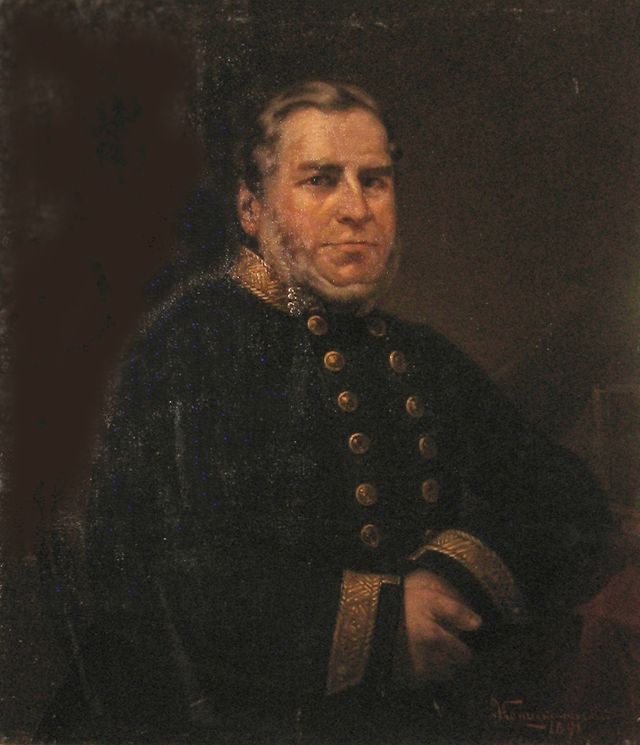 Portrait of Mikhail Kachkovsky (1802-1872) Photographed in Lviv History Museum by User:Водник